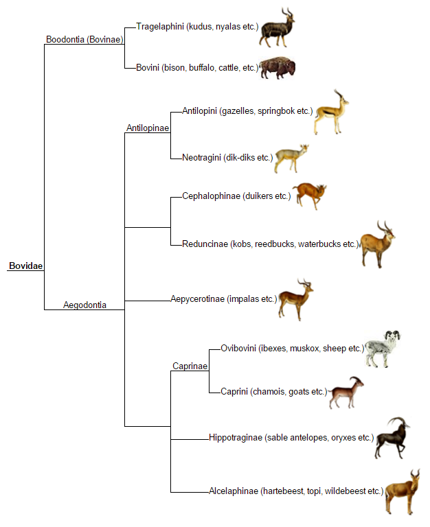 Phylogeny of Bovidae